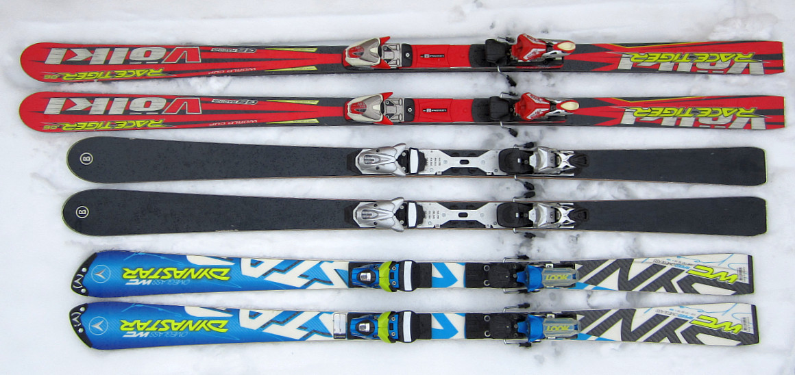 Various shaped skis, from top to bottom: Giant slalom race ski, then FIS legal (2006 Völkl Racetiger GS Racing), length 193 cm, sidecut 102-66-88, radius 21 m Cross carver (2011 Bogner Pure Black) 171 cm, Sidecut 119-70-100, radius 16 m Slalom race ski, FIS legal (2013 Dynastar Speed Omeglass WC), length 165 cm, sidecut 118-66-101, radius 13 m